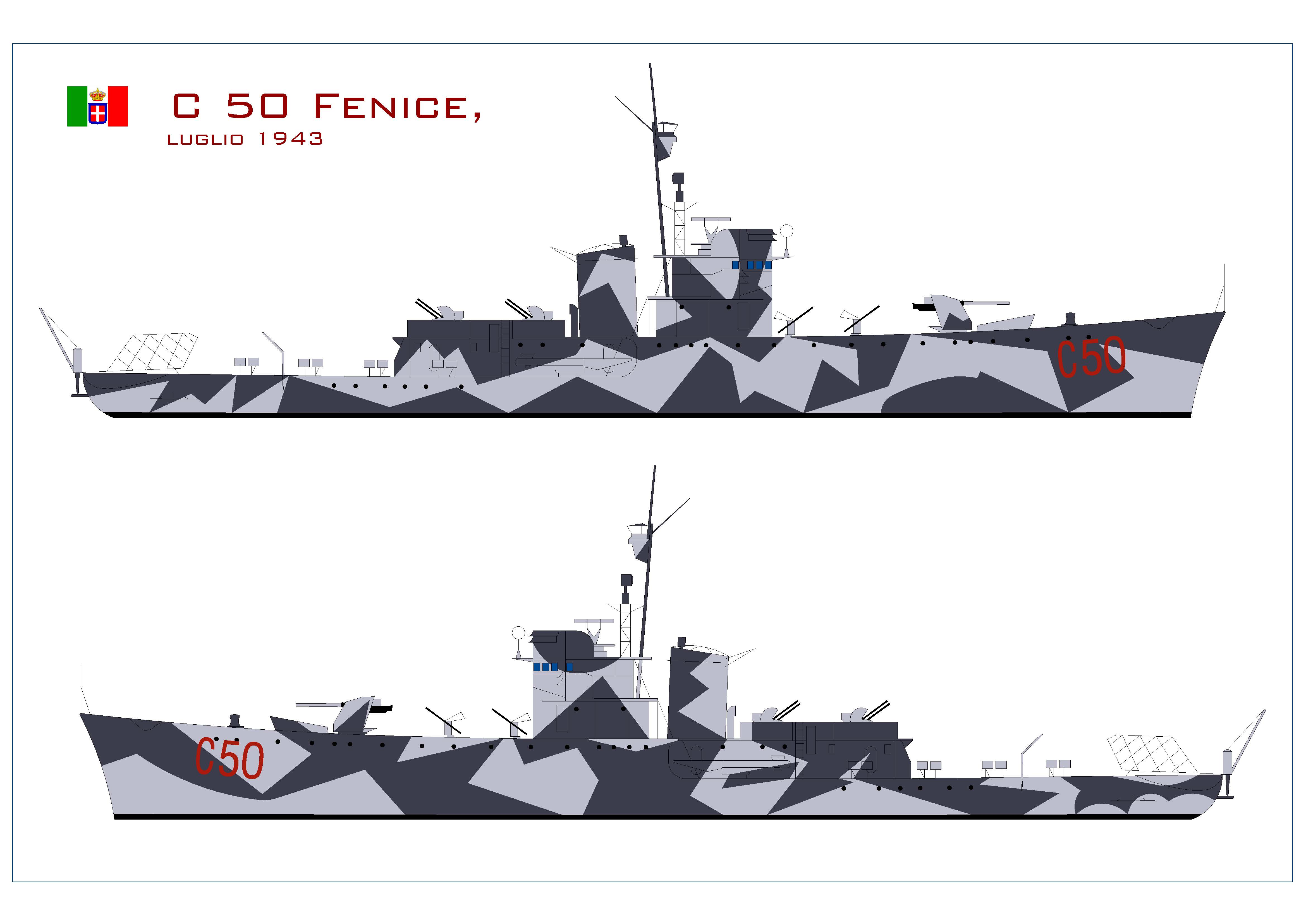 C 50 Fenice